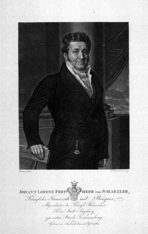 The german businessman Johann Lorenz Schaezler (1762-1826)